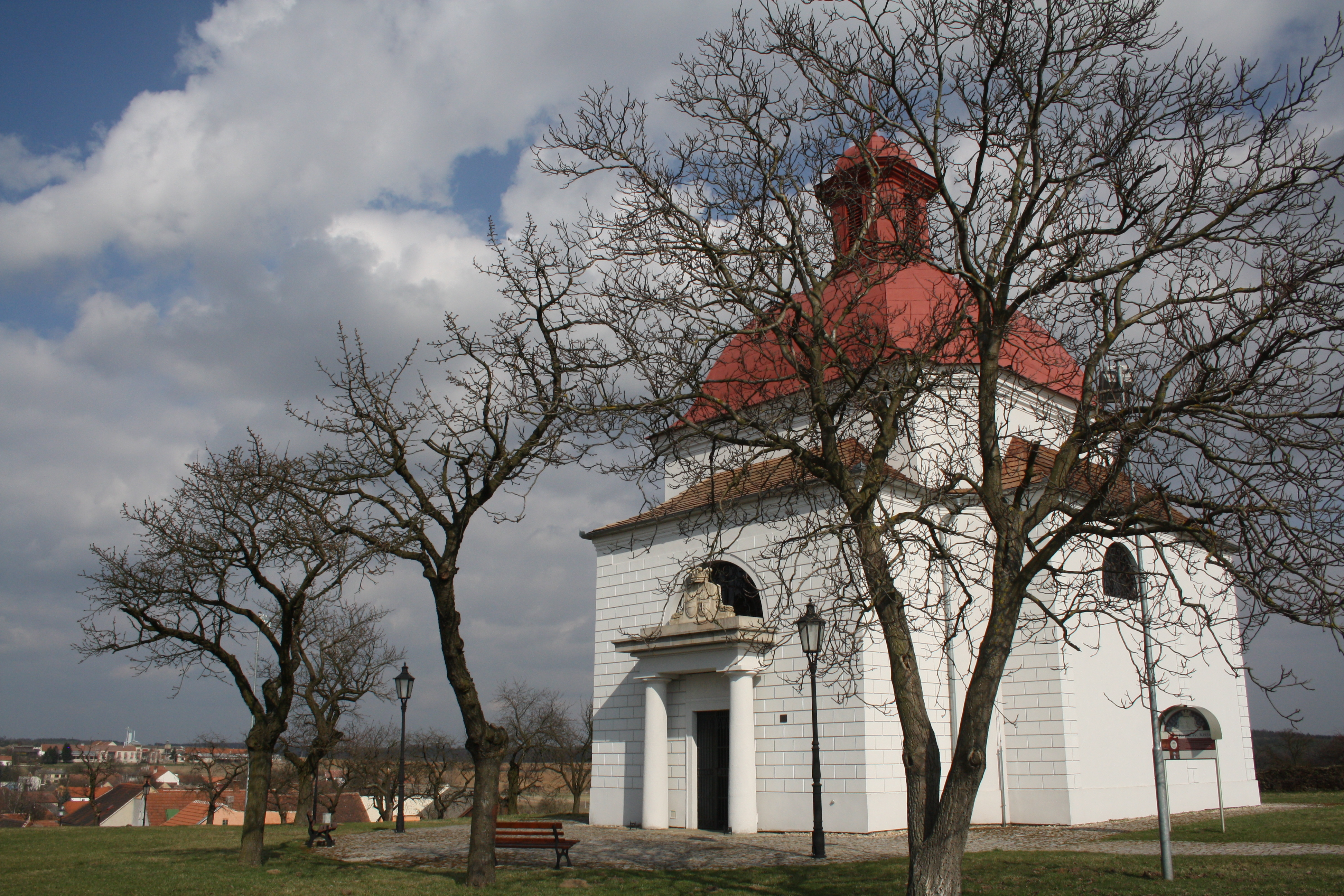 Overview of area of chapel of Holy Cross in Dalešice, Třebíč District.